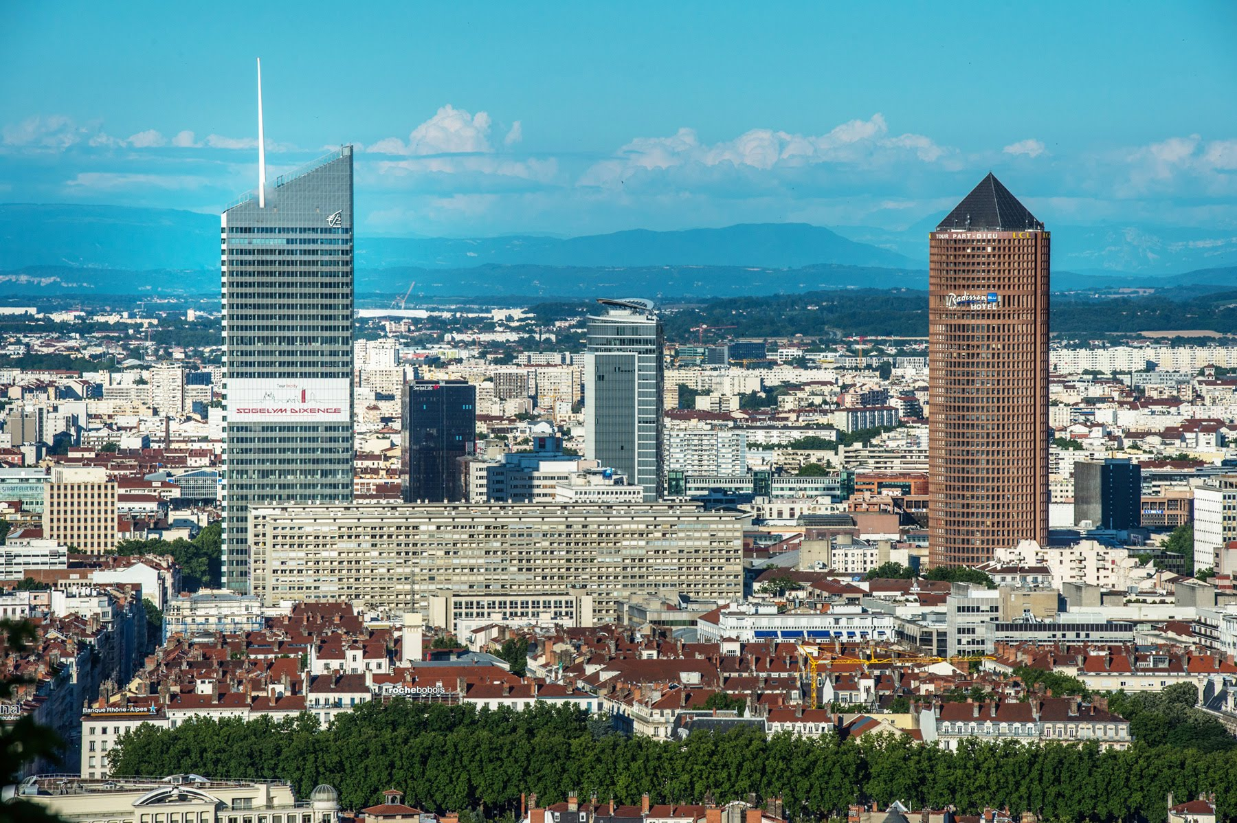 La Part Dieu Skyline - Lyon